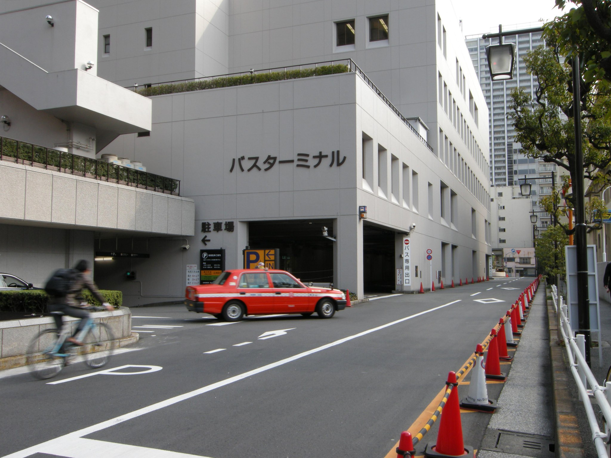 Hamamatsucho Bus Terminal: entrance near the Oedo Line Daimon Station